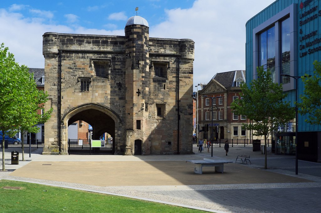 More accurately called The Newarke Gateway, this was the grand entrance to the Newarke ("new work"), the religious and charitable institution founded by Henry, 3rd Earl of Leicester and Lancaster to the south of Leicester Castle and enlarged by his son, Henry of Grosmont, First Duke of Lancaster. (Part of De Montfort University, which now occupies most of The Newarke, is visible at right).